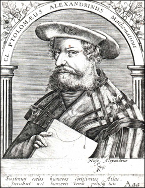 Portrait of Ptolemy: woodcut by Theodore de Bry (1528‑1598).